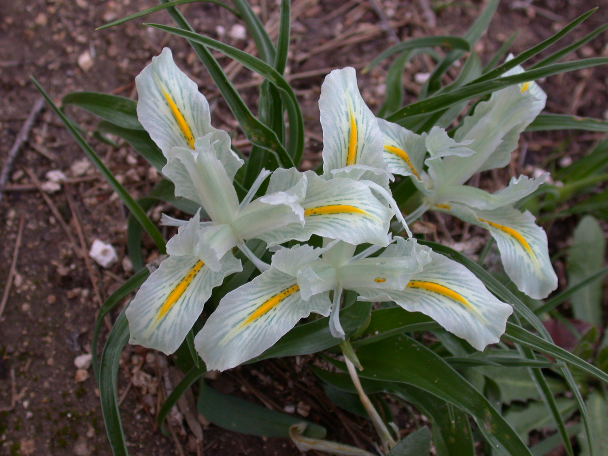 Iris palaestina (Baker) Boiss. (אירוס ארצישראלי), Mount Carmel, Israel, December 30, 2005.